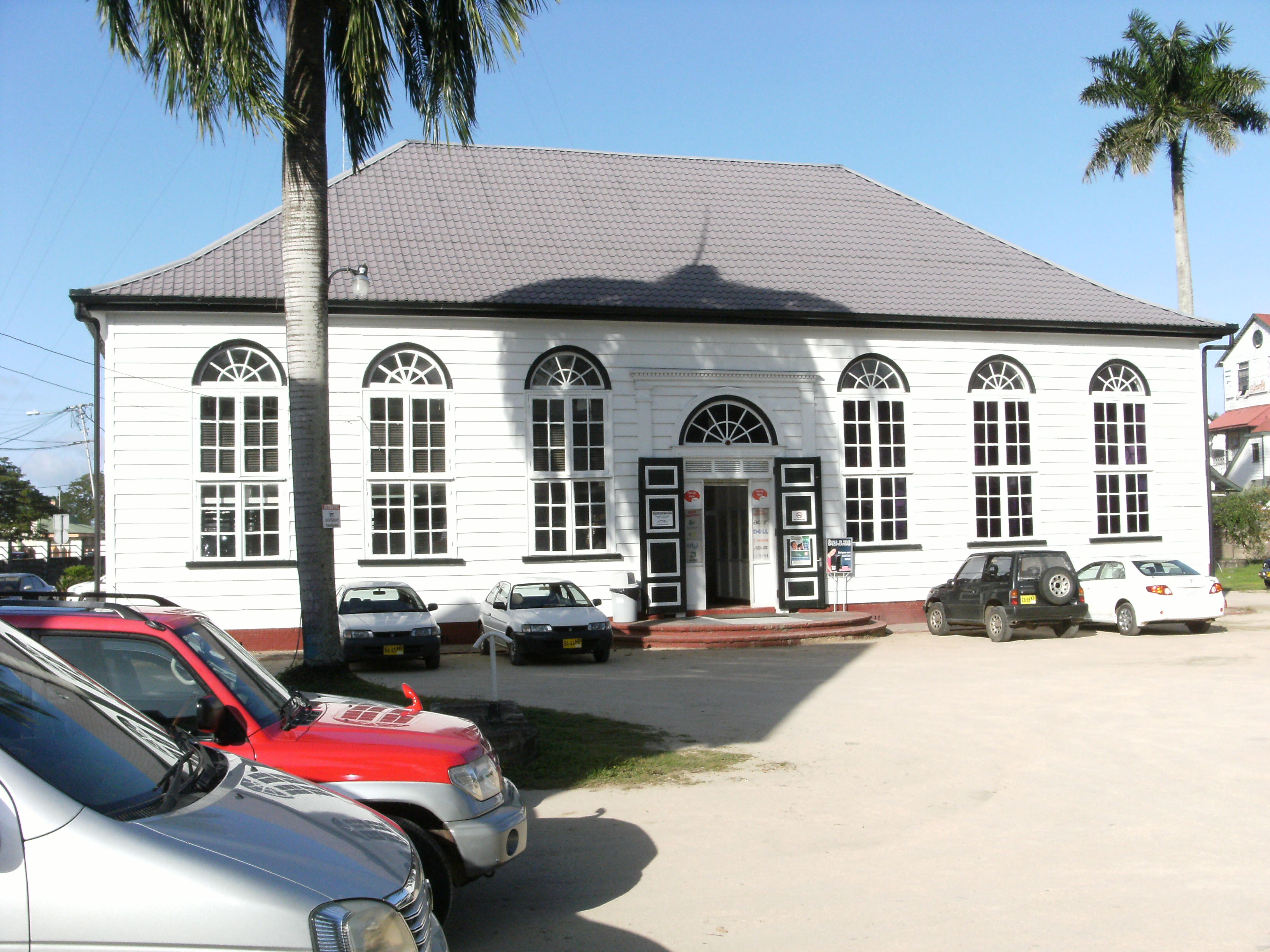 Former Portuguese synagogue in Paramaribo.